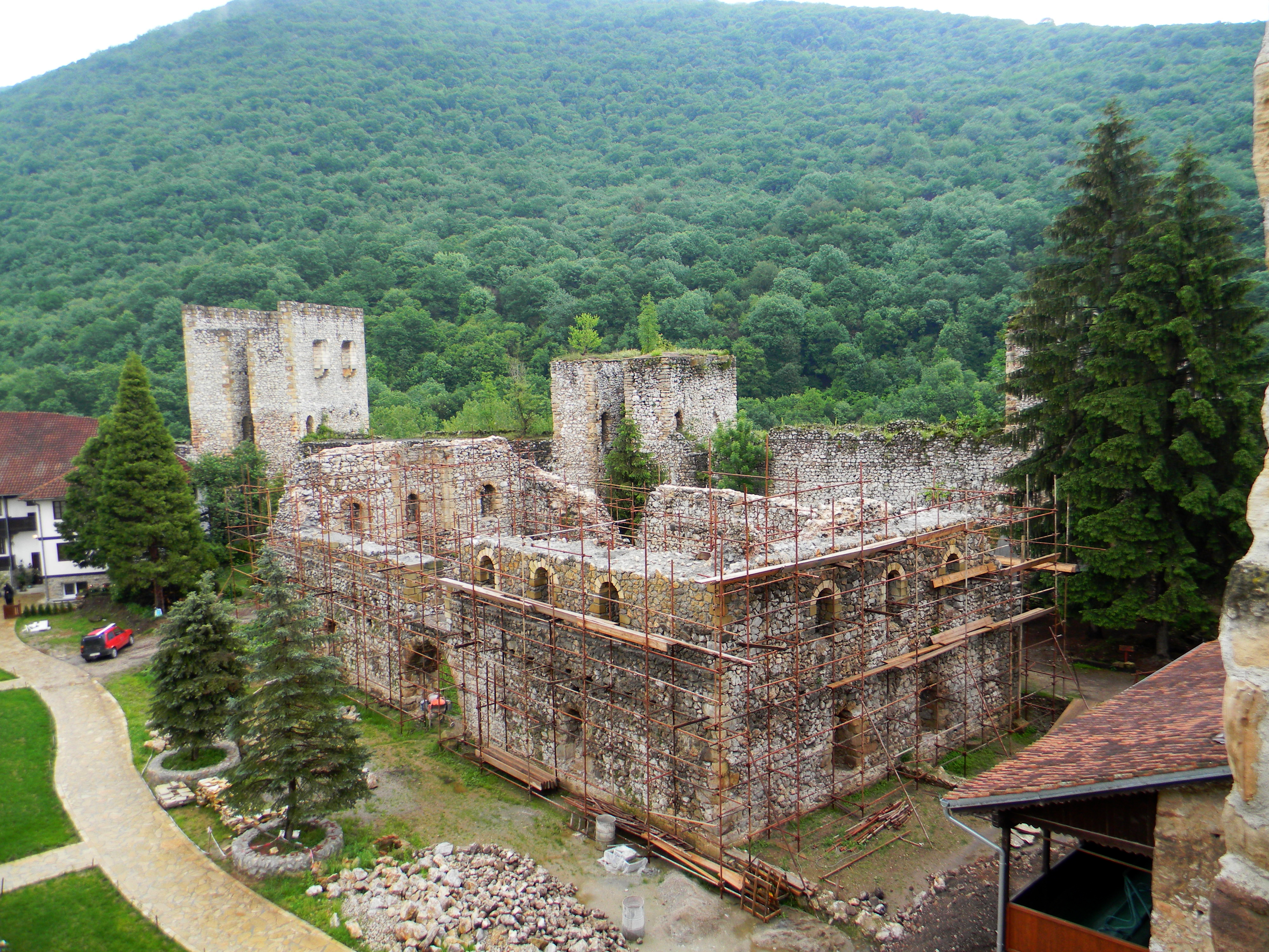 Fortress and Monastery of Manasija, near Despotovac, Serbia